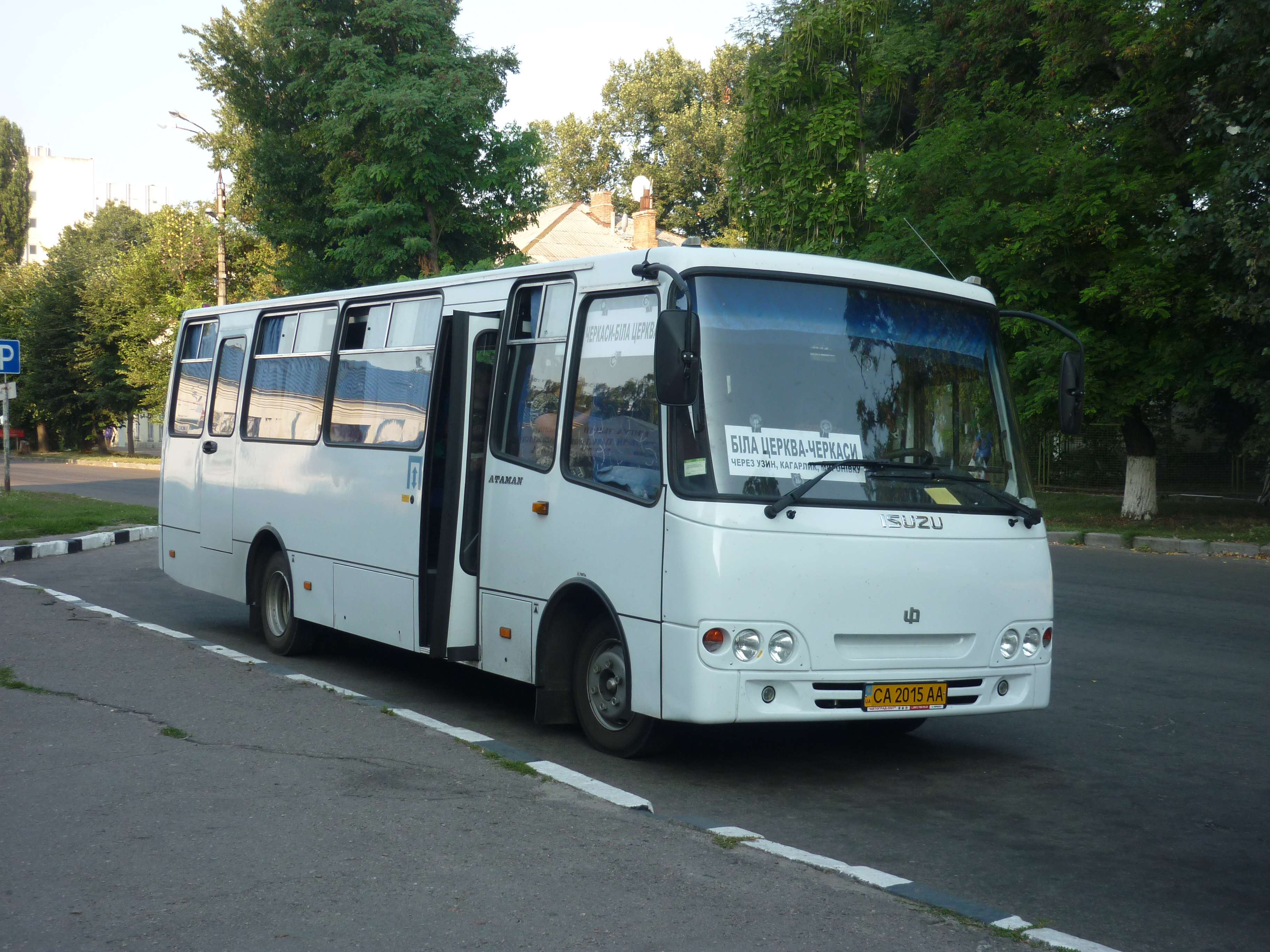 Bus Ataman A093414 in Cherkasy